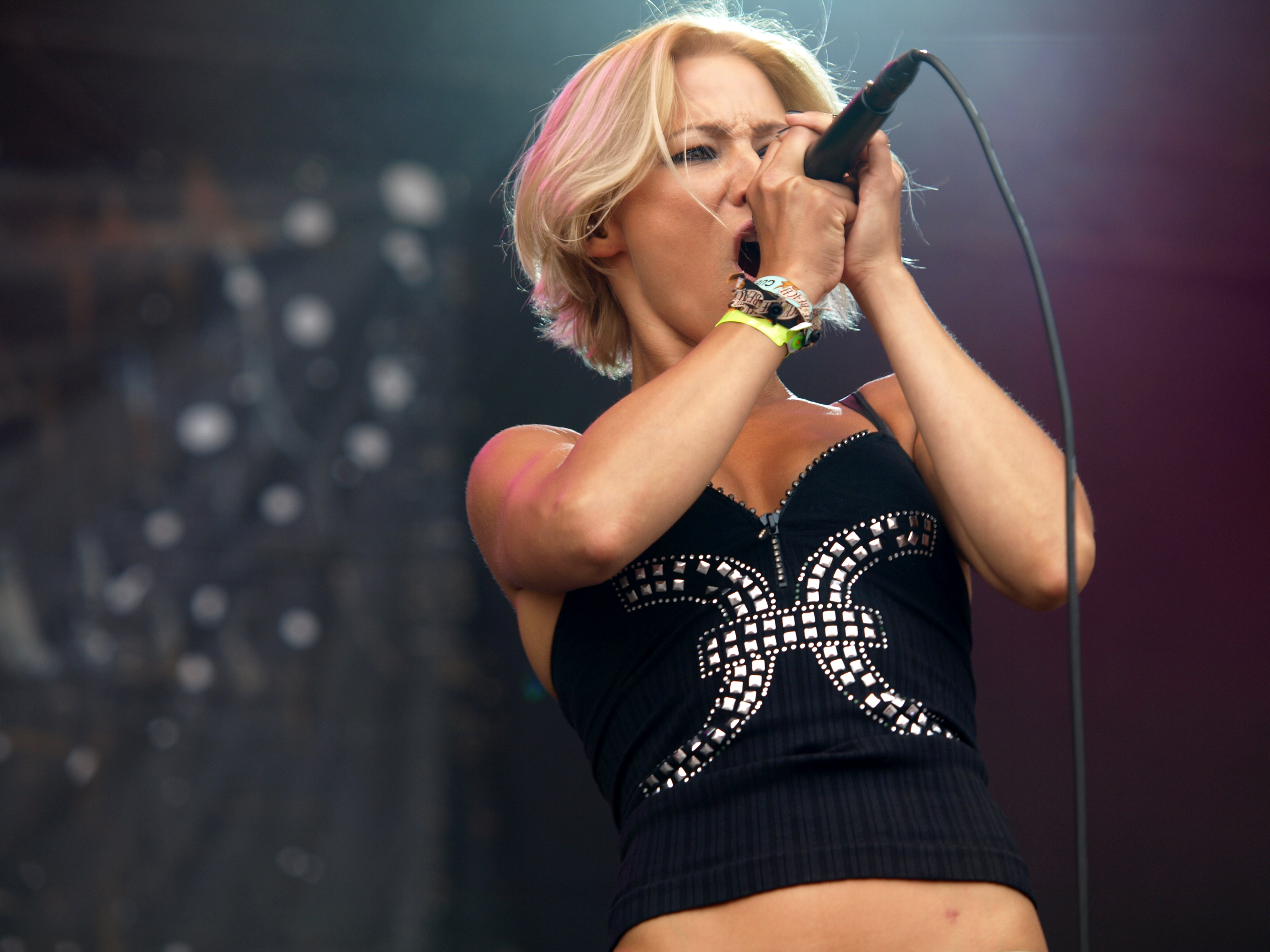 Finnish band Barbe-Q-Barbies at Tuska Open Air 2013